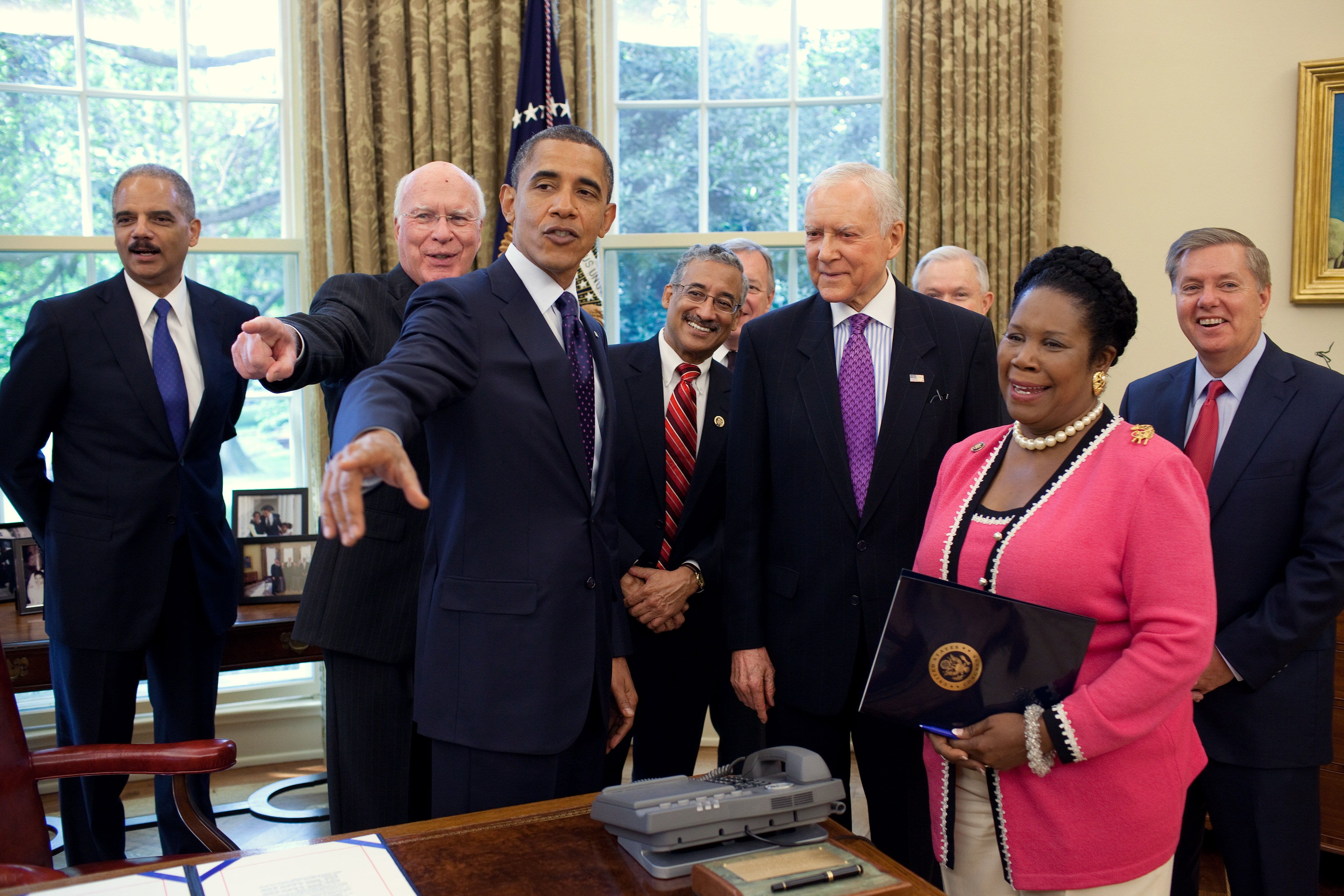 President Barack Obama talks with Members of Congress after signing the Fair Sentencing Act in the Oval Office, Aug. 3, 2010. Participants include, from left, Attorney General Eric Holder, Sen. Patrick Leahy, D-Vt., Rep. Bobby Scott, D-Va., Senate Majority Whip Richard Durbin, D-Ill., Sen. Jeff Sessions, R-Ala., Sen. Orrin Hatch, R-Utah, Rep. Sheila Jackson-Lee, D-Texas, and Sen. Lindsey Graham, R-SC. (Official White House Photo by Pete Souza) This official White House photograph is in the public domain from a copyright perspective, so while restrictions such as personality or privacy rights may apply, in general, manipulations are allowed.